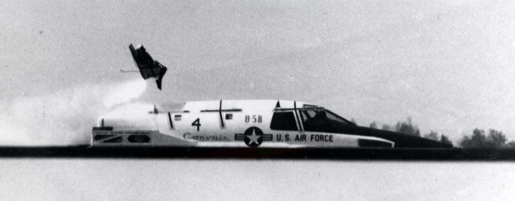 Convair B-58 Ejection Capsule standard seat ejection on Aug. 7, 1957